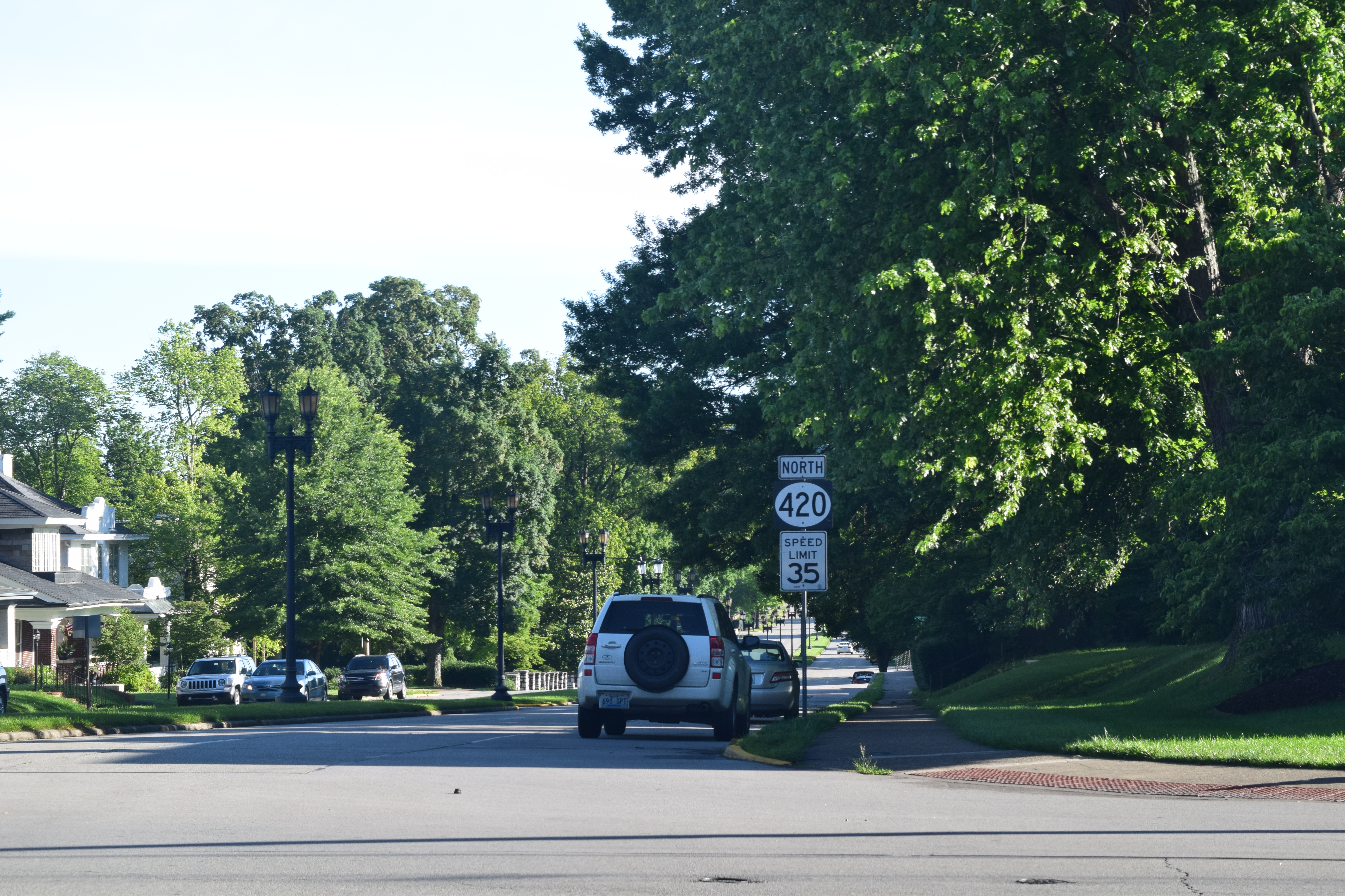 Northbound Kentucky Route 420 north of the Kentucky State Capitol in Frankfort, Kentucky.